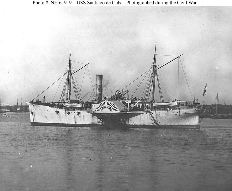 Santiago de Cuba, a 1567-ton (burden) wooden side-wheel steamship, was built in 1856 at New York City for commercial use. She was purchased by the U.S. Navy in September 1861, converted to a cruiser and commissioned as USS Santiago de Cuba in November 1861. Sent to the Gulf of Mexico area to enforce the blockade of the Confederate States and protect American shipping, she proved to be a very successful blockader. The first of her many captures was the schooner Victoria, taken in early December. During 1862 and 1863, Santiago de Cuba mainly operated in the western Atlantic, capturing several blockade runners, among them the steamships Columbia (on 3 August 1862), Victory (21 June 1863), Britannia (25 June 1863) and Lizzie (15 July 1863). For several months in 1862, she also served with a special squadron organized to search for the Confederate cruisers Alabama and Florida. Following an overhaul between December 1863 and June 1864, Santiago de Cuba rejoined the blockade. She captured the steamer Advance on 10 September 1864 and the steamer Lucy in early November. During December 1864 and January 1865 she participated in the two attacks that ultimately captured Fort Fisher, North Carolina, thus bringing to an end most Atlantic Coast blockade running. USS Santiago de Cuba was decommissioned in June 1865 and sold at auction in September. She soon reentered commercial employment and operated as a steamship for the next two decades. She was converted to a barge in 1886 and renamed Marion. The old ship finally passed out of service in about 1899.